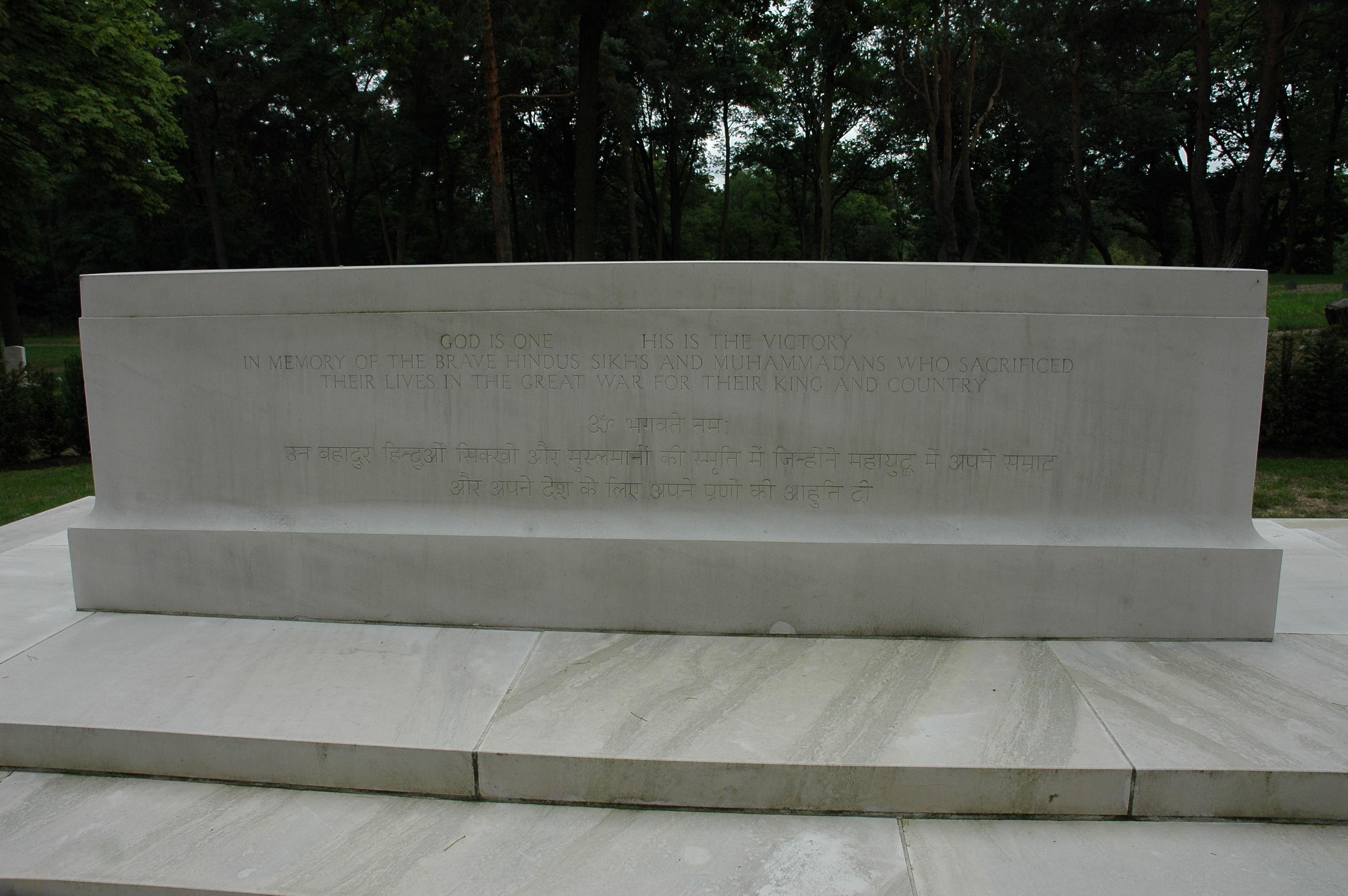 Memorial on the British War Cemetary at Zehrensdorf in Germany WW I Minnesmerke over britiske soldater som falt under første Verdenskrig